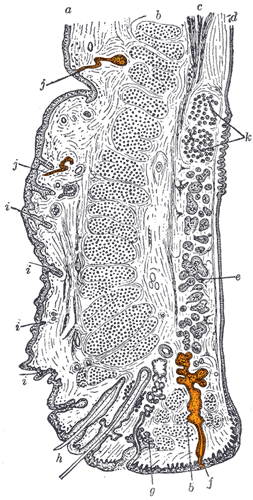 Sectional view of the eyelid with sweat glands highlightedEsperanto: Vista transversal del párpado con las glándulas sudoríparas subrayadas